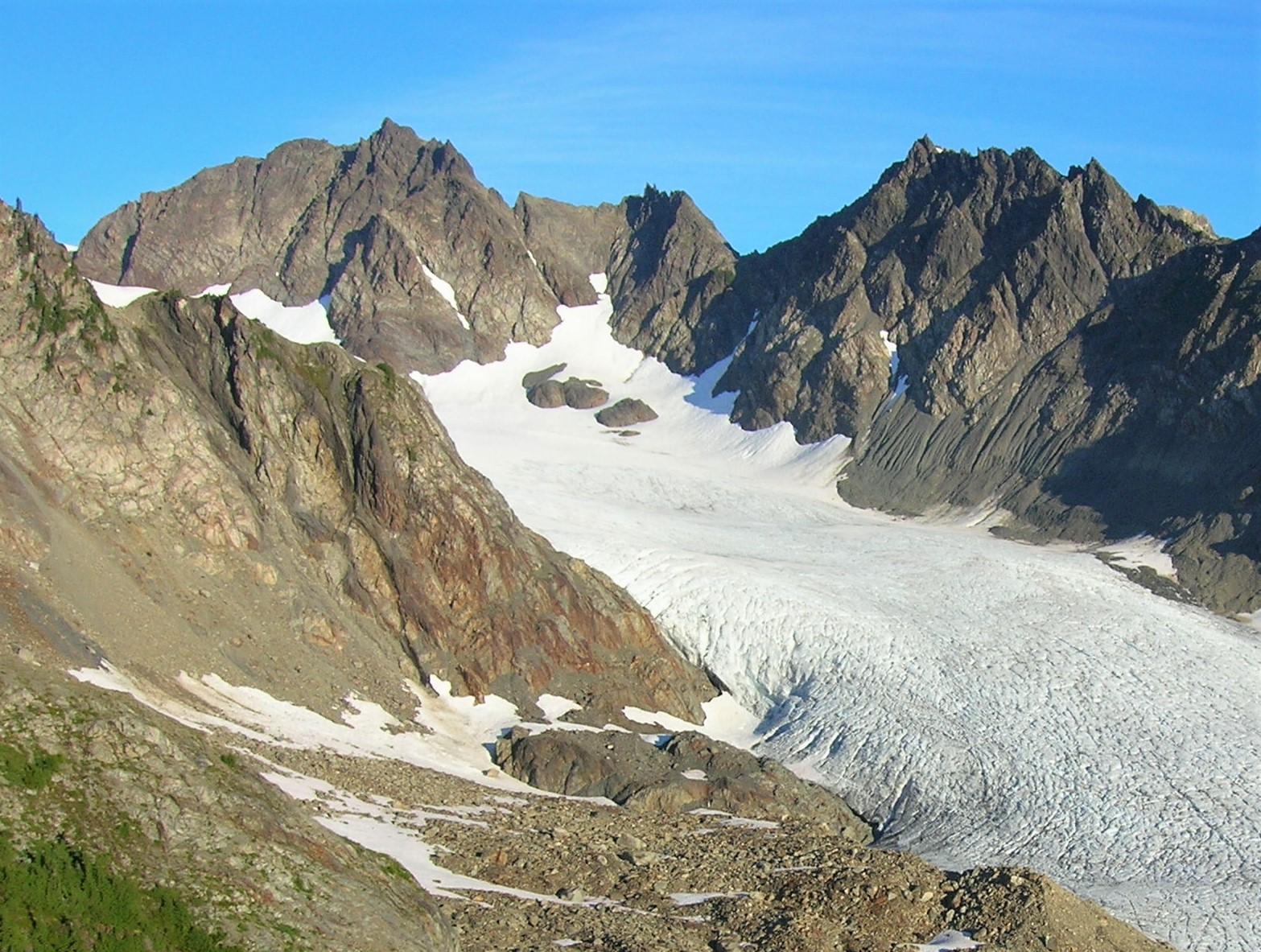 Aerial photo of Humes Glacier and Aries (upper left)